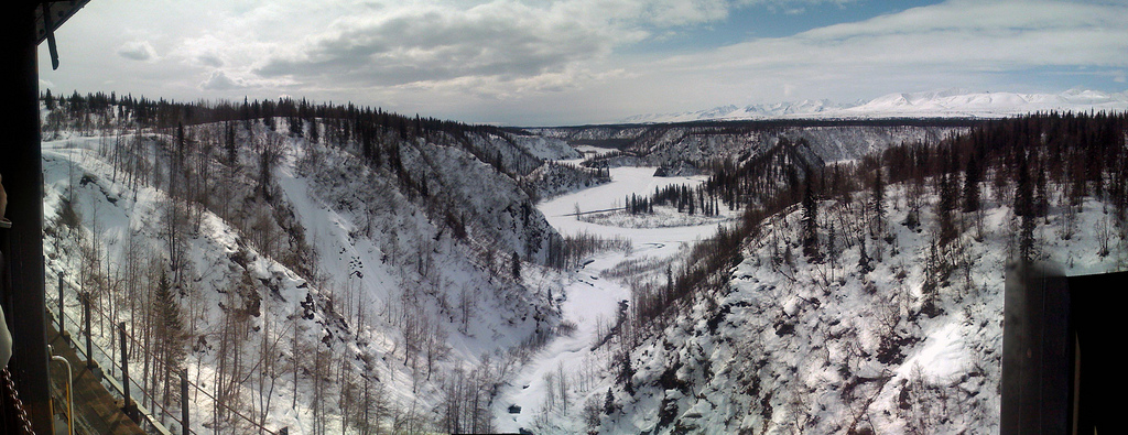 Hurricane Gorge is the most impressive bridge on the Alaska Railroad. It's about 300 feet down, and it seems a lot further when all you have is a railroad trestle beneath you. The train stopped in the middle of the gorge, and the conductor opened the doors of the baggage car and let us file back and hang out the side. Absolutely beautiful, and it was warm enough to be comfortable, too.